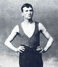 Vintage photograph of Steve Brodie (1861-1901) who claimed to have jumped off the Brooklyn Bridge